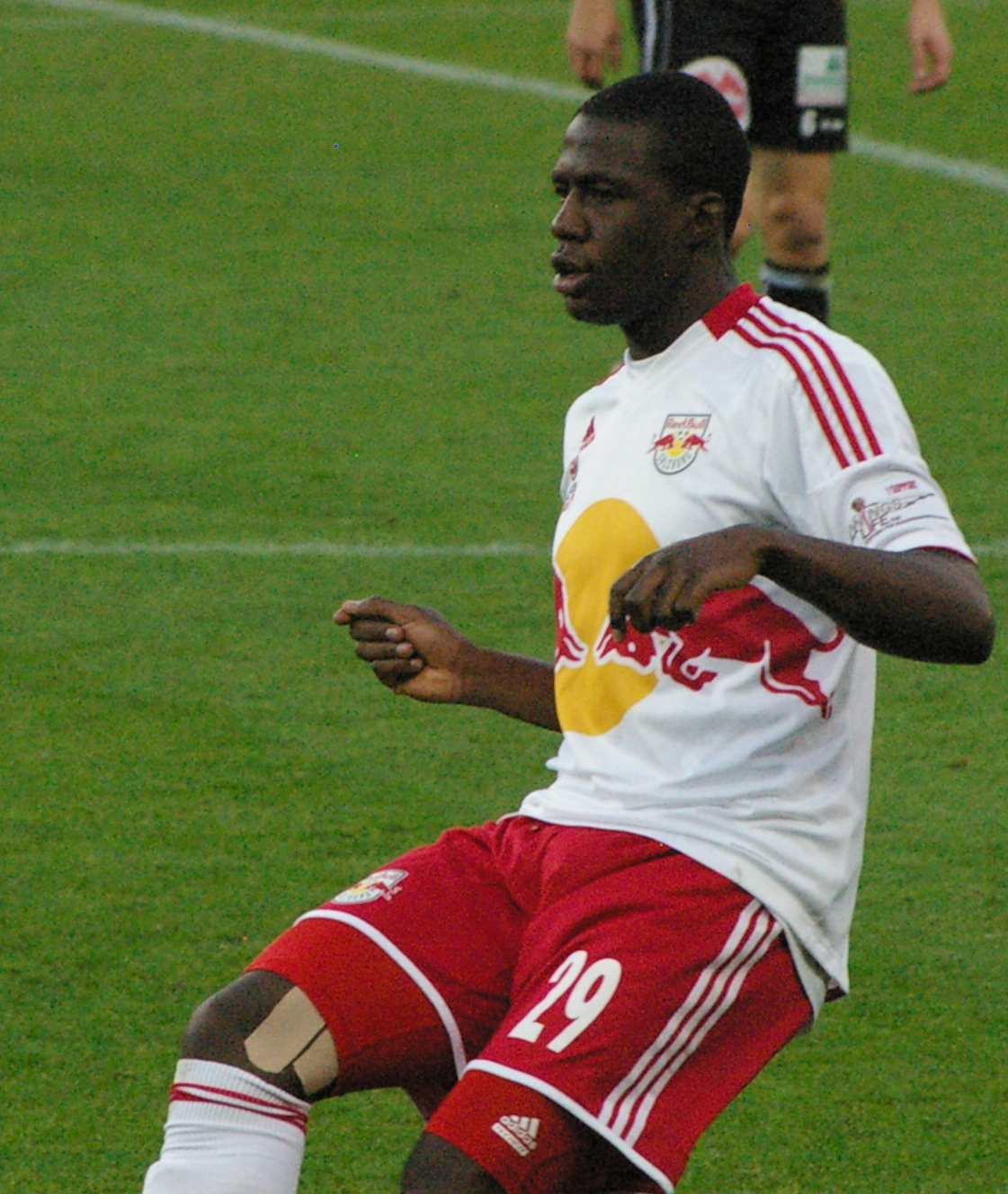 defender RB Salzburg